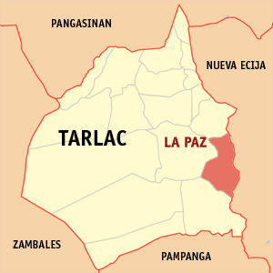 Map of Tarlac showing the location of La Paz